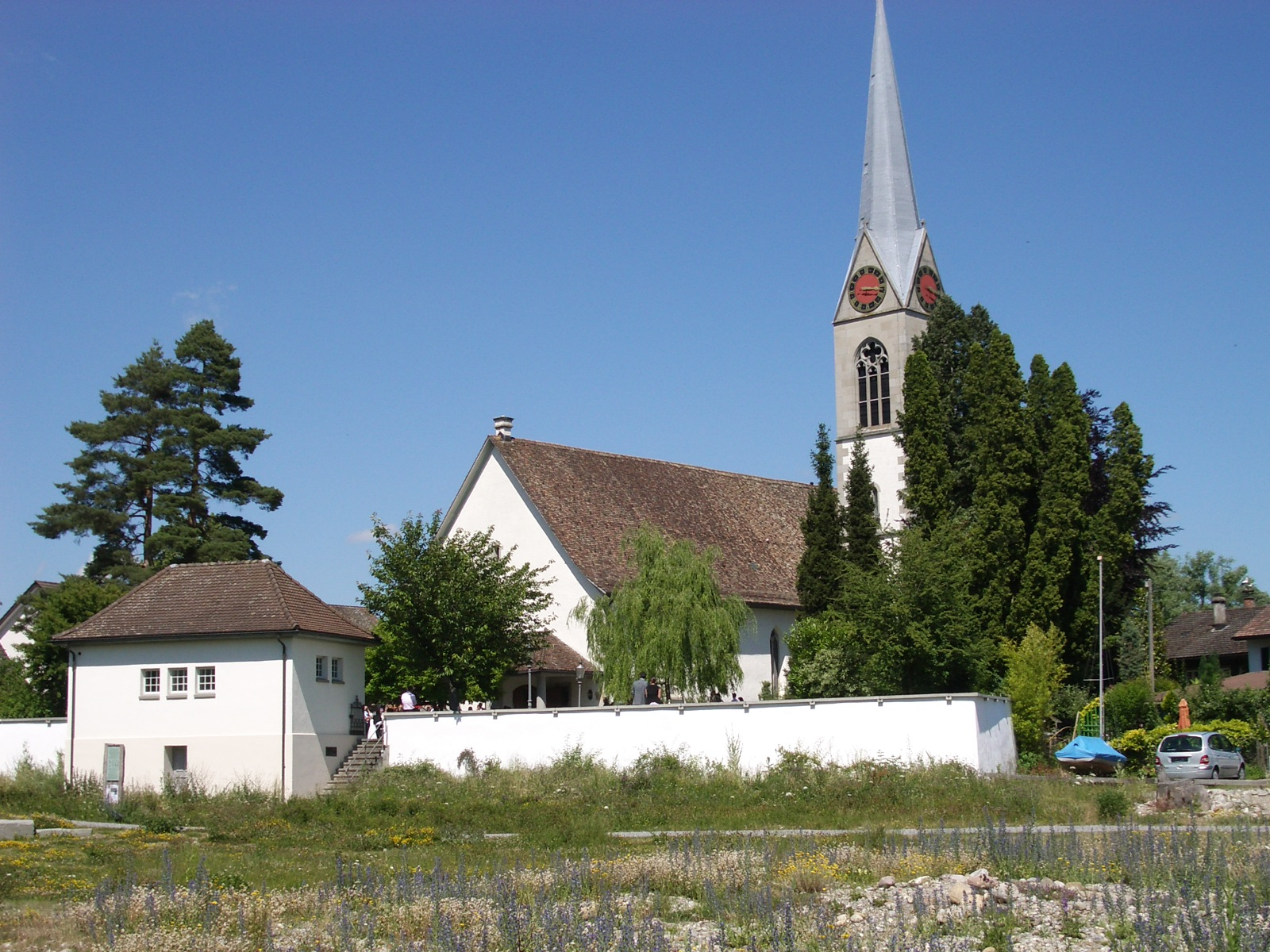 Pfäffikon ZH, Switzerland